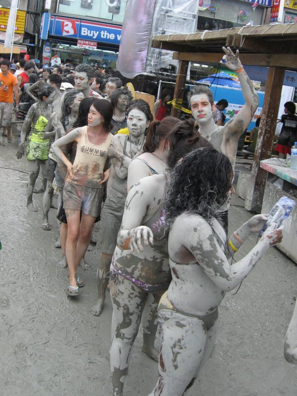 Boryeong Mud Festival, South Chungcheong Province, South Korea.